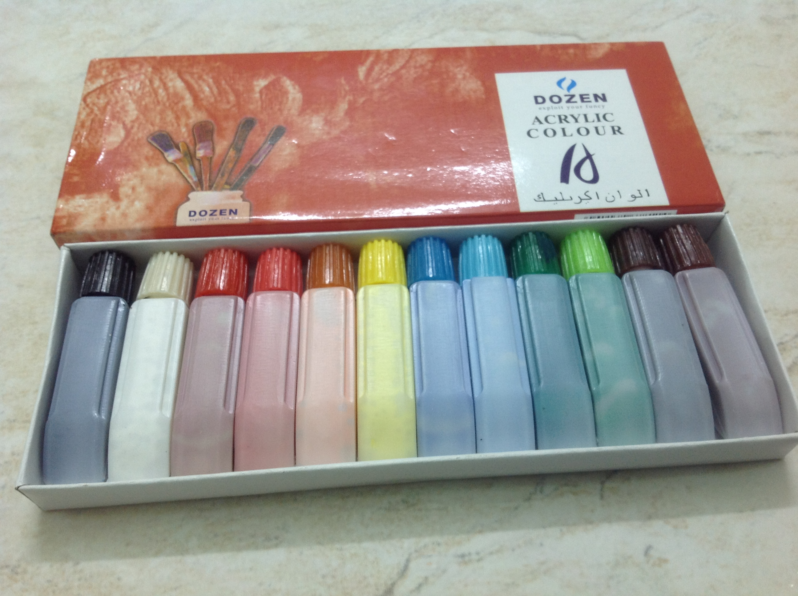 Acrylic Paint